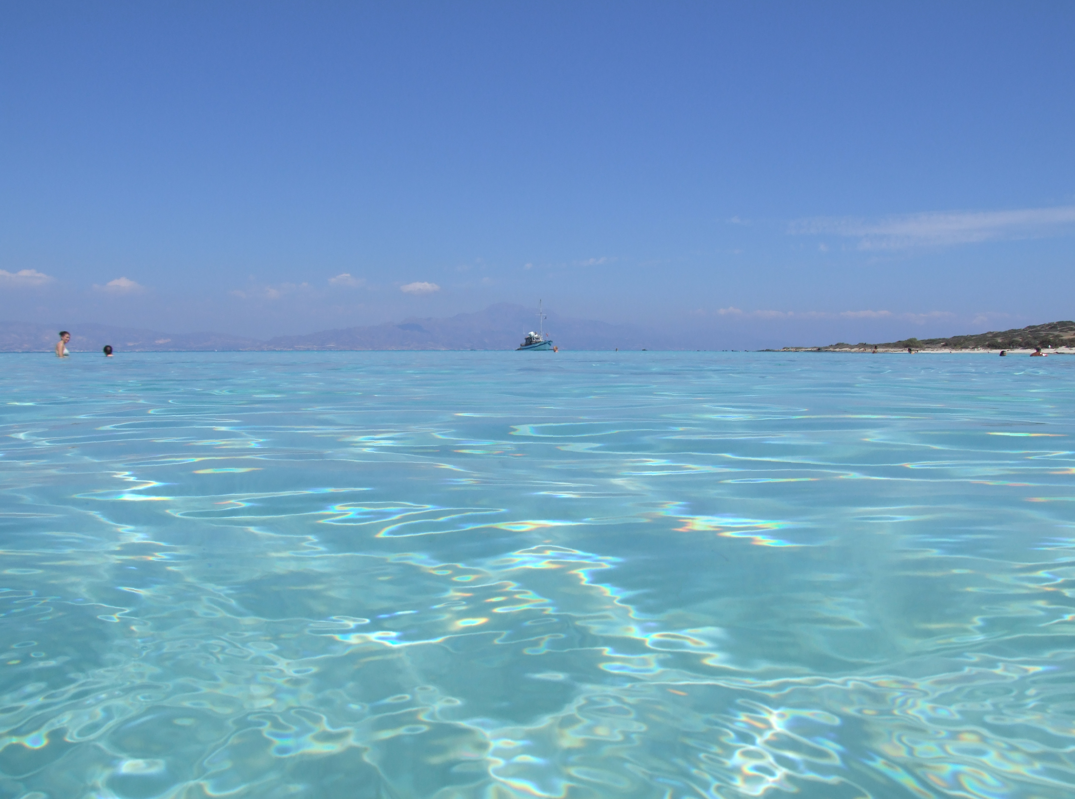 The crystal clear water at the Chrysi island south of Ierapetra